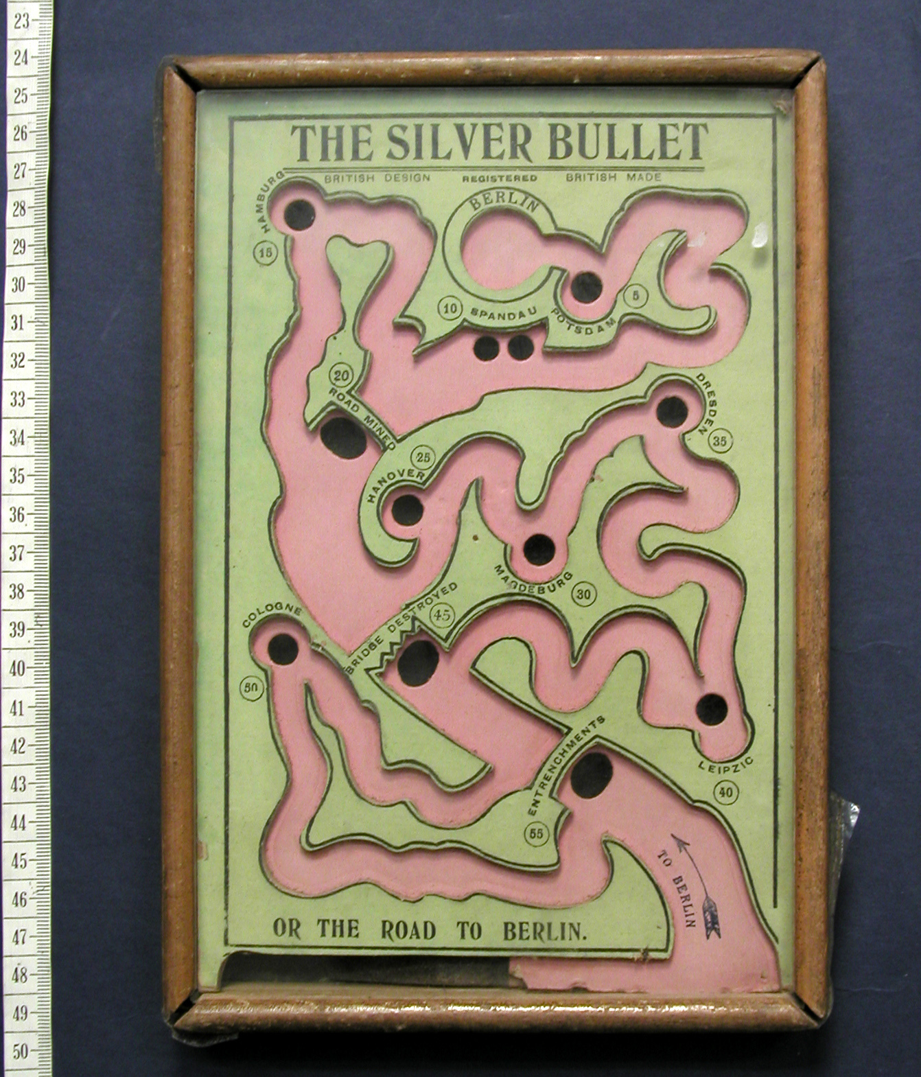 WW1 game - 'The Silver Bullet or The Road to Berlin' game of dexterity or skill - wooden box with glass top; the playing surface features a series of cut out grooves along which a series of holes represent hazards and towns to be avoided; the purpose of the game is to move a metal ball along the grooves to reach Berlin without dropping it down a hole markings- title on board- THE NEW WAR GAME - THE SILVER BULLET - OR THE ROAD TO BERLIN manufacturer's markings on board- BRITISH DESIGN - REGISTERED - BRITISH MADE instructions printed on paper on back of game board ( see image) name (owner's.) handwritten in ink on back of game- BECKETT HOWICK - NZ name (owner's.) handwritten in pencil on back of game- BECKETT HOWICK